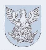 Coat of Arms of Tristão Vaz Teixeira